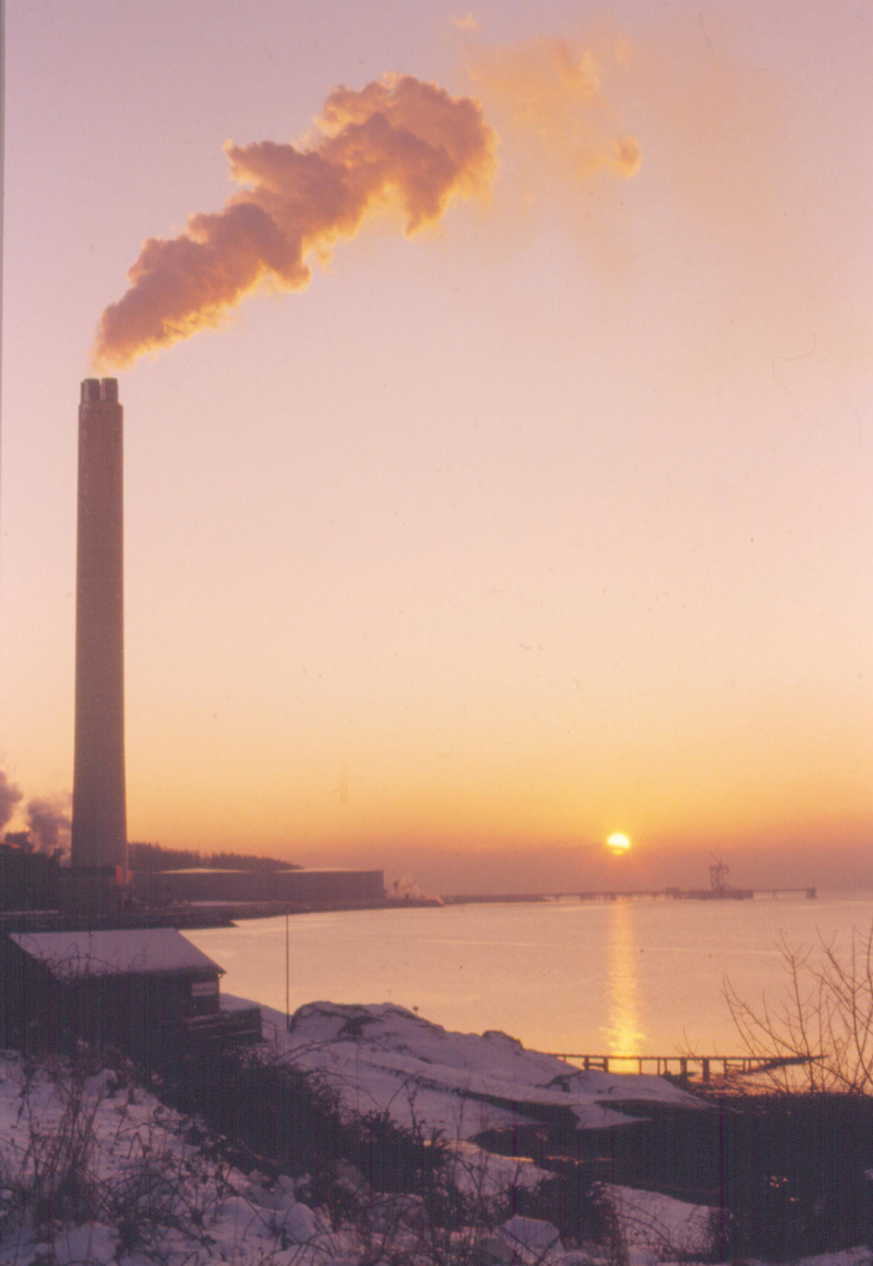 This was taken from the war memorial at Inverkip Point, in January/ Ferbruary, 1985. The chimney is due to be demolished at 10pm, 28th July, 2013